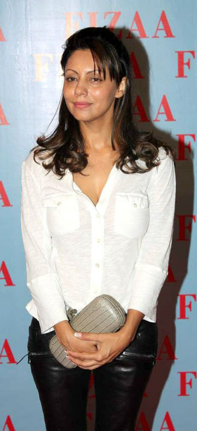 Gauri Khan at Fizaa store launch